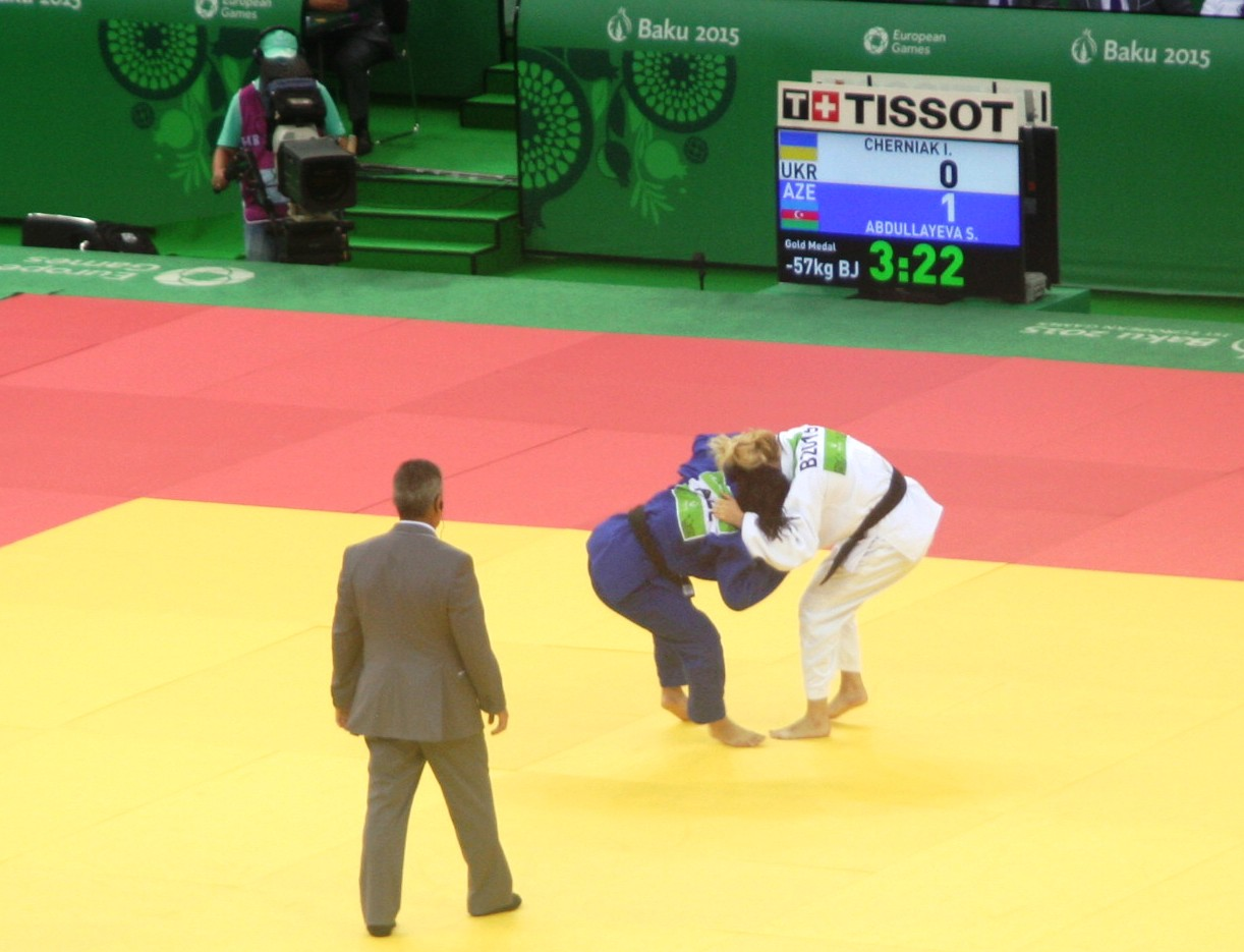 Abdullayeva vs Cherniak at the final of the 2015 European Games